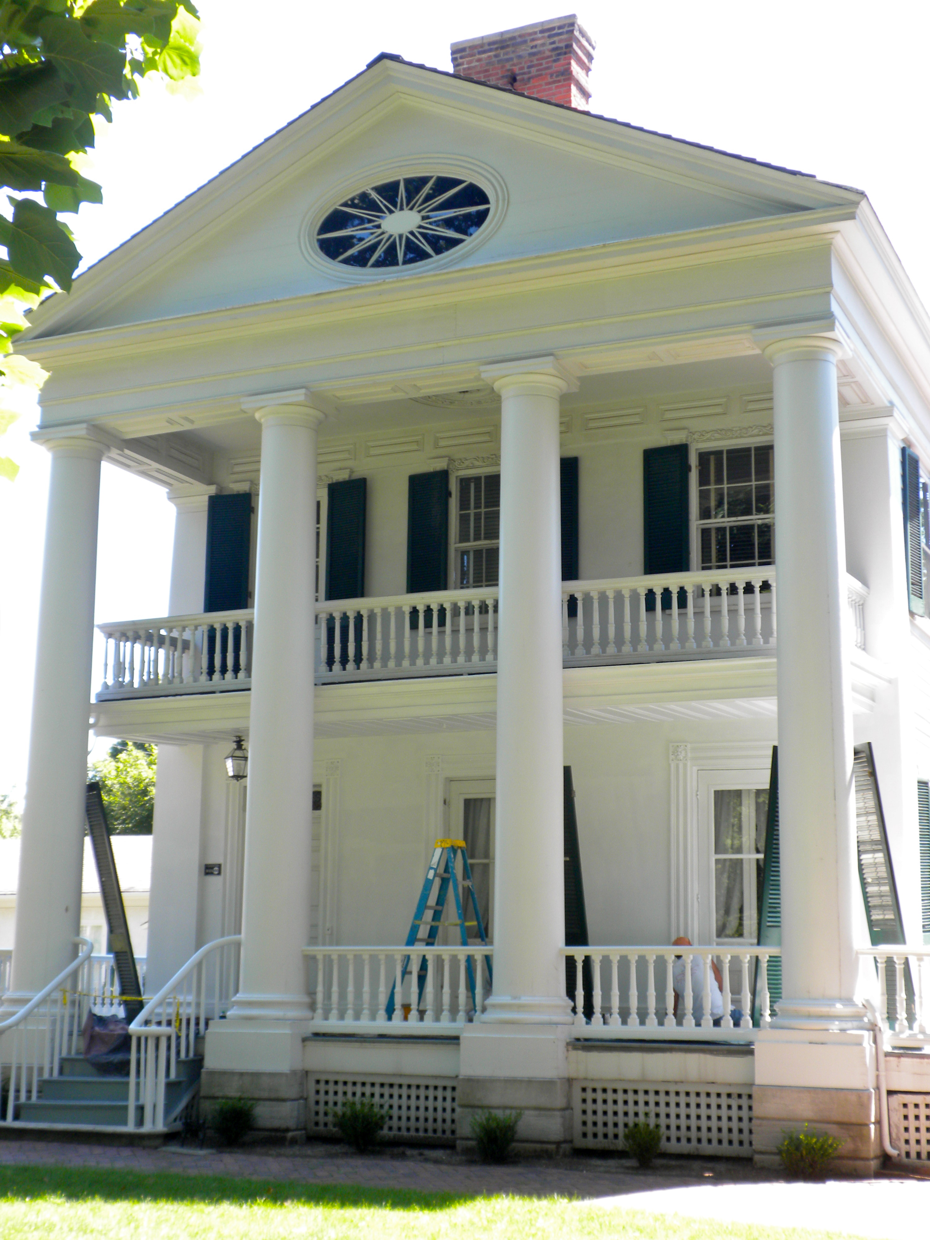 John Wood Mansion on the NRHP since April 17, 1970. At 425 S. 12th St., Quincy, Illinois. One of several houses in Quincy that were home to the founder of Quincy. Said to have been the official Governor's Mansion of Illinois during the 10 month Wood was governor, but I can't verify that. Now home to Quincy Historical Society